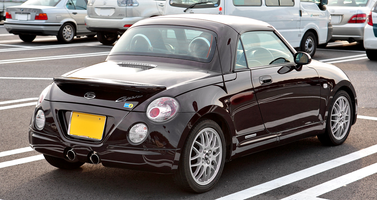 Daihatsu Copen 660 Ultimate Edition II